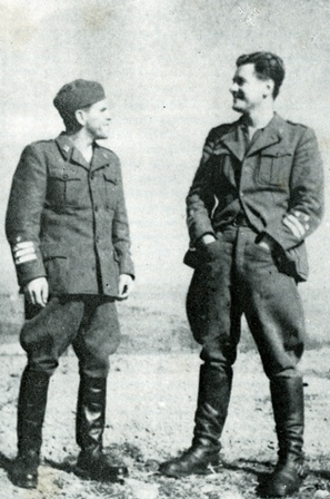 Partisan commanders Franc Rozman-Stane and Dušan Kveder-Tomaž